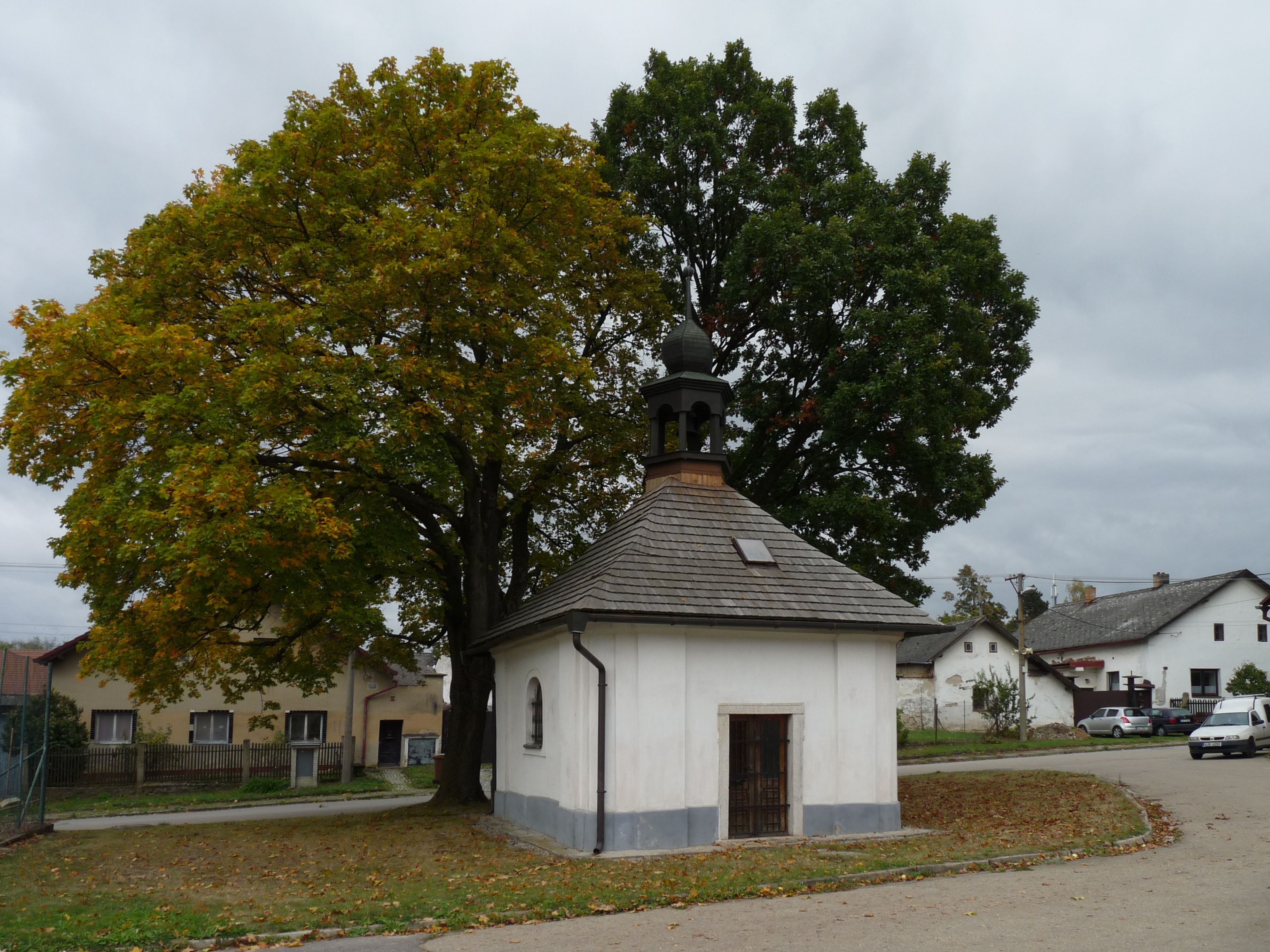 Chapel of the Holy Family in the village of Hosov (part of the town of Jihlava) in Jihlava District, Vysočina Region, Czech Republic.